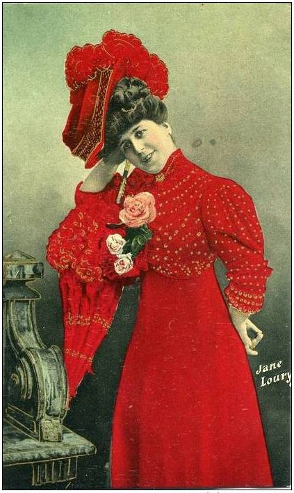 French actress Jane Loury (1876-1951), circa 1910